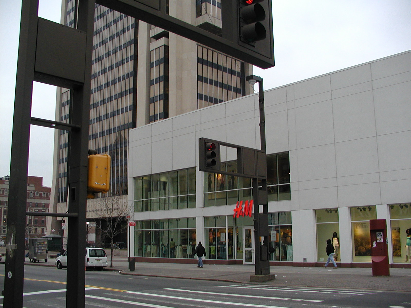 The Adam Clayton Powell Jr. State Office Building [1] and H&M store on 125th Street in Harlem NYC Category:Photographs by User:Petri Krohn